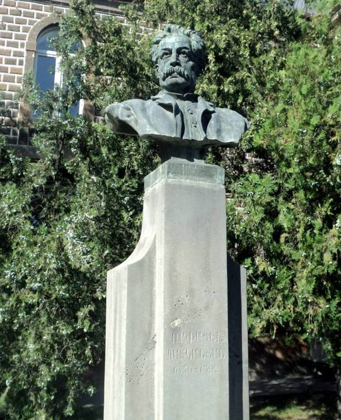 Rapayel Patkanyan's bust in front of Gevorgyan Seminary, Ejmiatsin